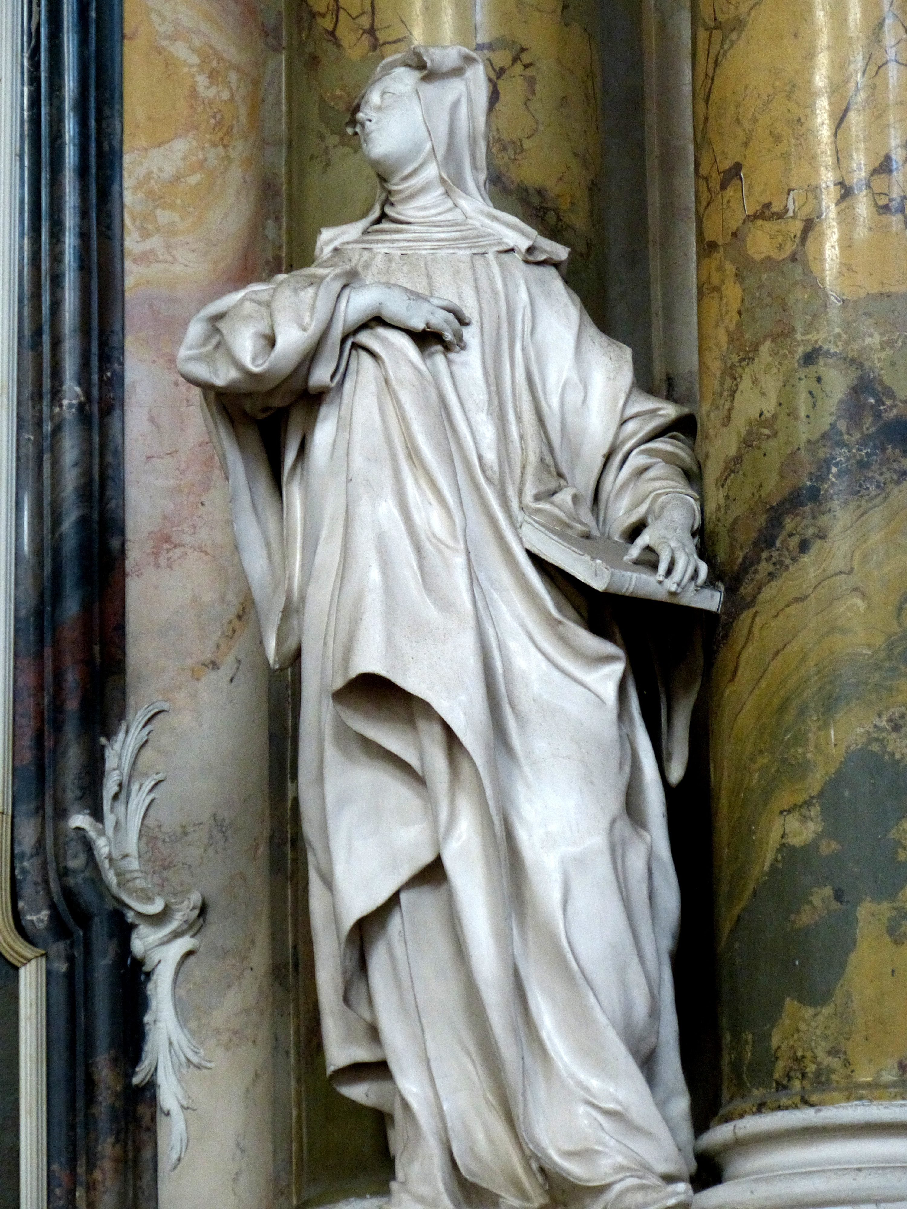 Engelhartszell ( Upper Austria ). Engelszell monastery church ( 1754-64 ) - Altar of Saint John of Nepomuk: Statue of Saint Gertrud of Helfta by Johann Georg Üblhör.